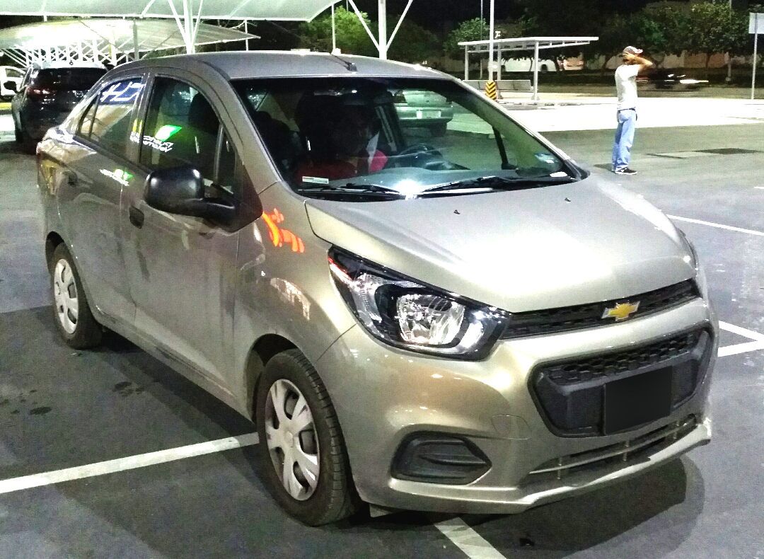 2017-present Chevrolet Beat photographed in Quinatana Roo, Mexico .